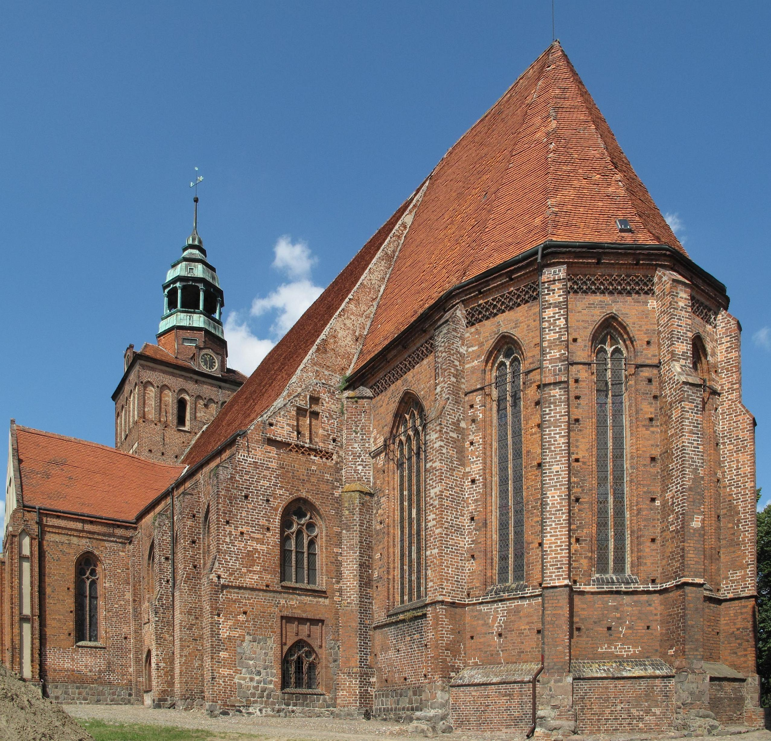 Gothic St James' Church (german: Jakobikirche) in Ośno Lubuskie, built 1248–1298. Ośno Lubuskie (german: Drossen) is a town in Lubusz Voivodeship, Poland, with 3,800 inhabitants (2008).